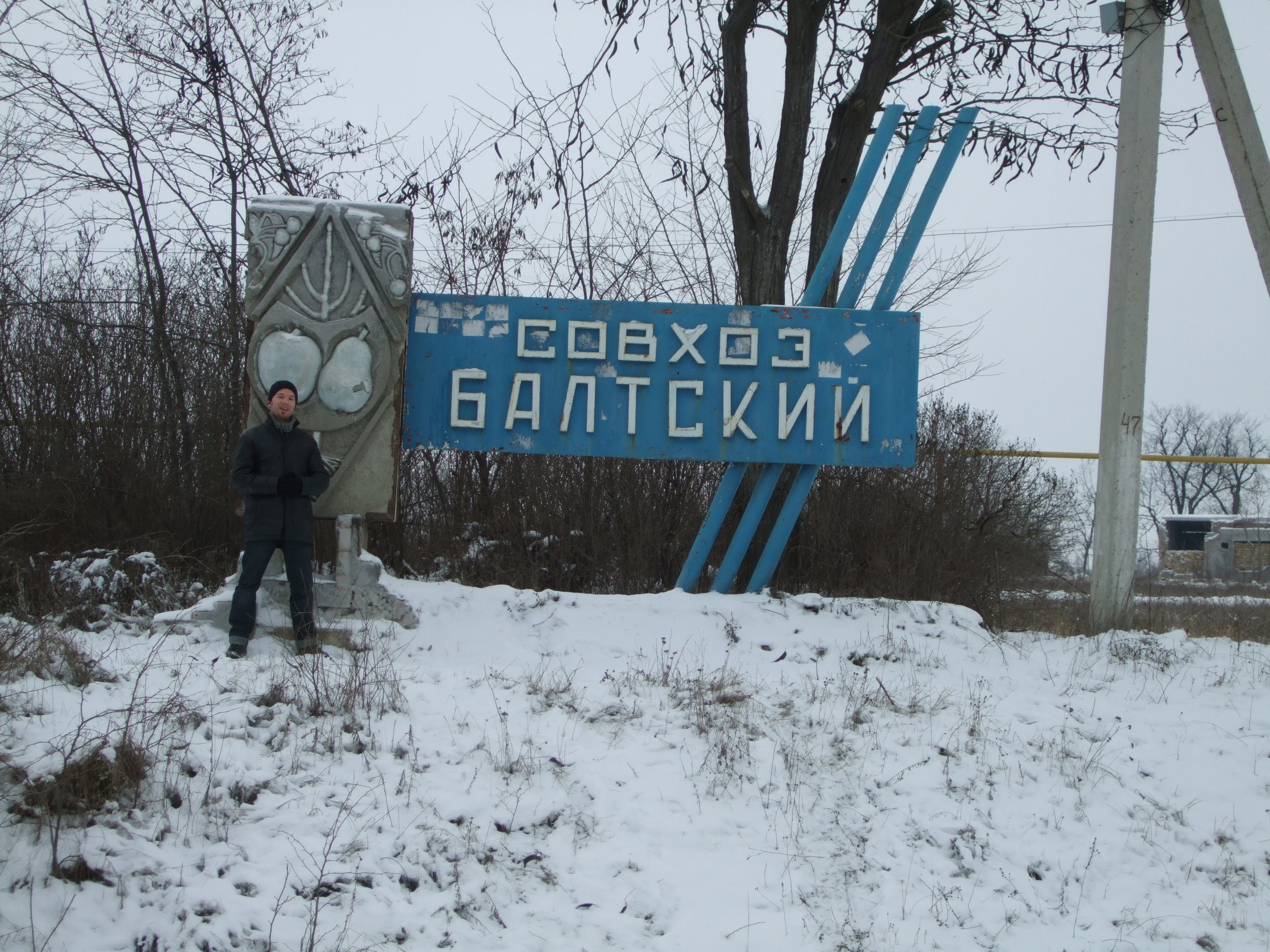 A 'sovkhoz' was a state farm under the USSR - bigger than the collective farms, established on large tracts of land confiscated from private landowners, sovkhozes represented "socialist agriculture of the highest order".